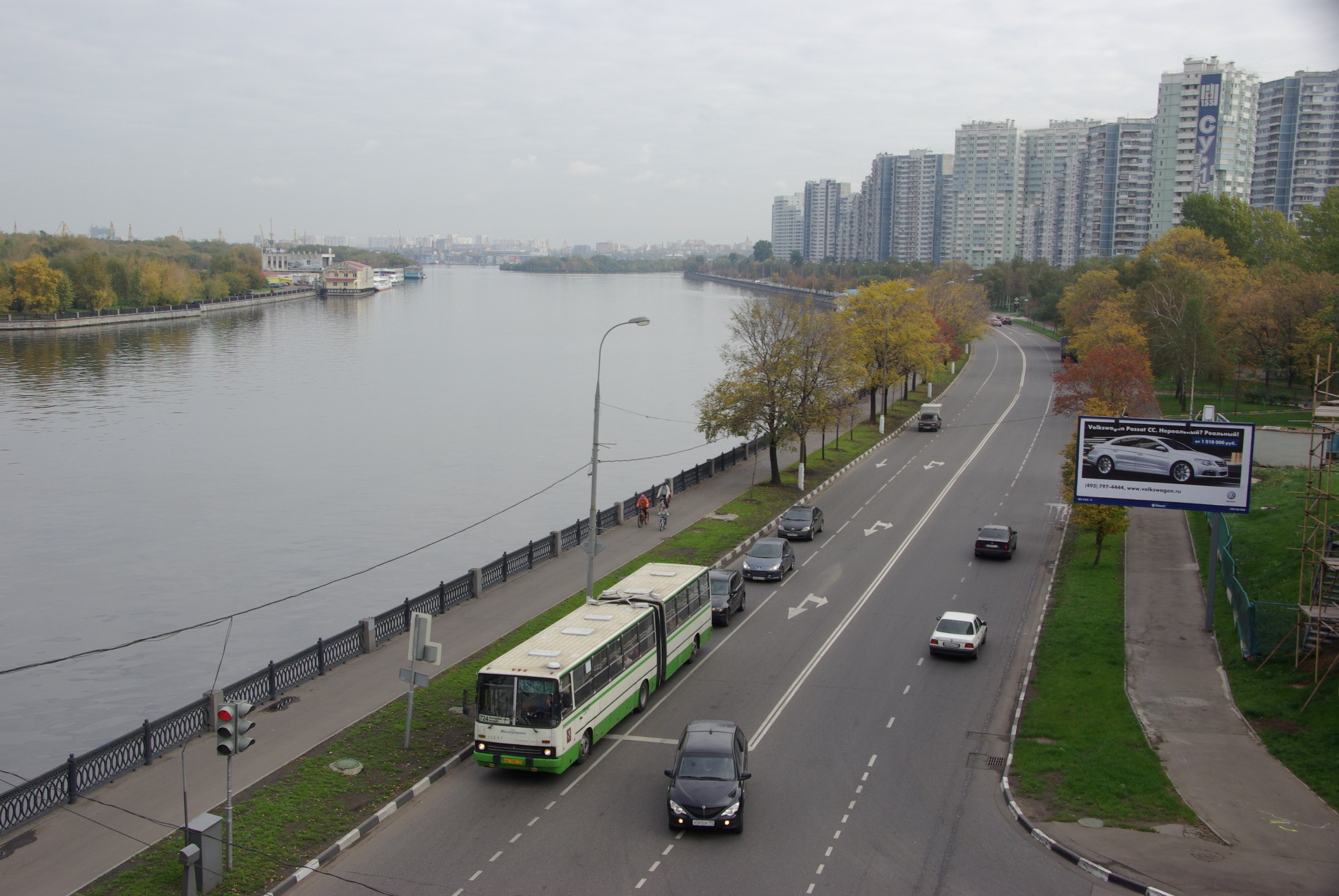 Moscow bus Ikarus-280.33M 13647_20101003_0432